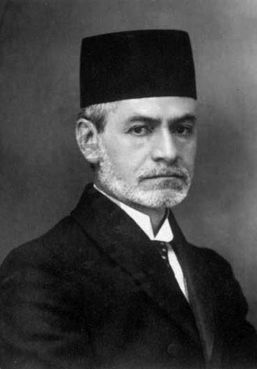 Ismail Mumtaz, Minister of Iran